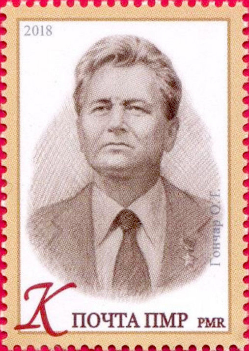 Authors of Transnistria